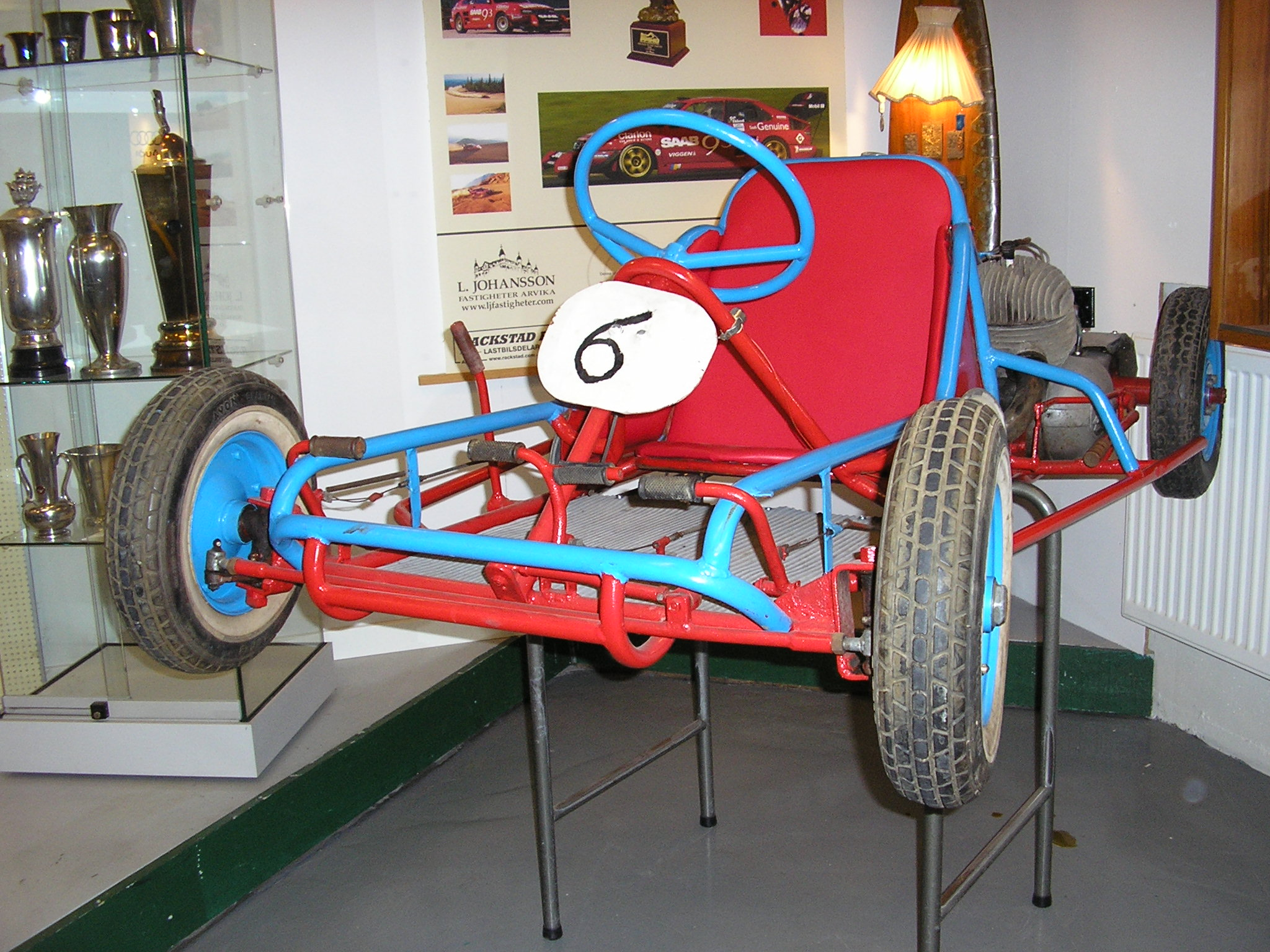 1960 Speedcar. Speedcar was an early form of karting. In Sweden it was introduced by a series of articles in Teknikens Värld in 1960 that described the build of a kart called Geting (Wasp). This car was built by Erik "Mannen" Andersson and it's powered by a single cylinder 194 cc Ardie engine giving 12.5 hp at 5900 rpm.